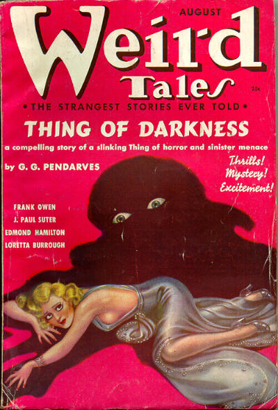 Cover of the pulp magazine Weird Tales (August 1937, vol. 30, no. 2) featuring Thing of Darkness by G. G. Pendarves. Cover art by Margaret Brundage.